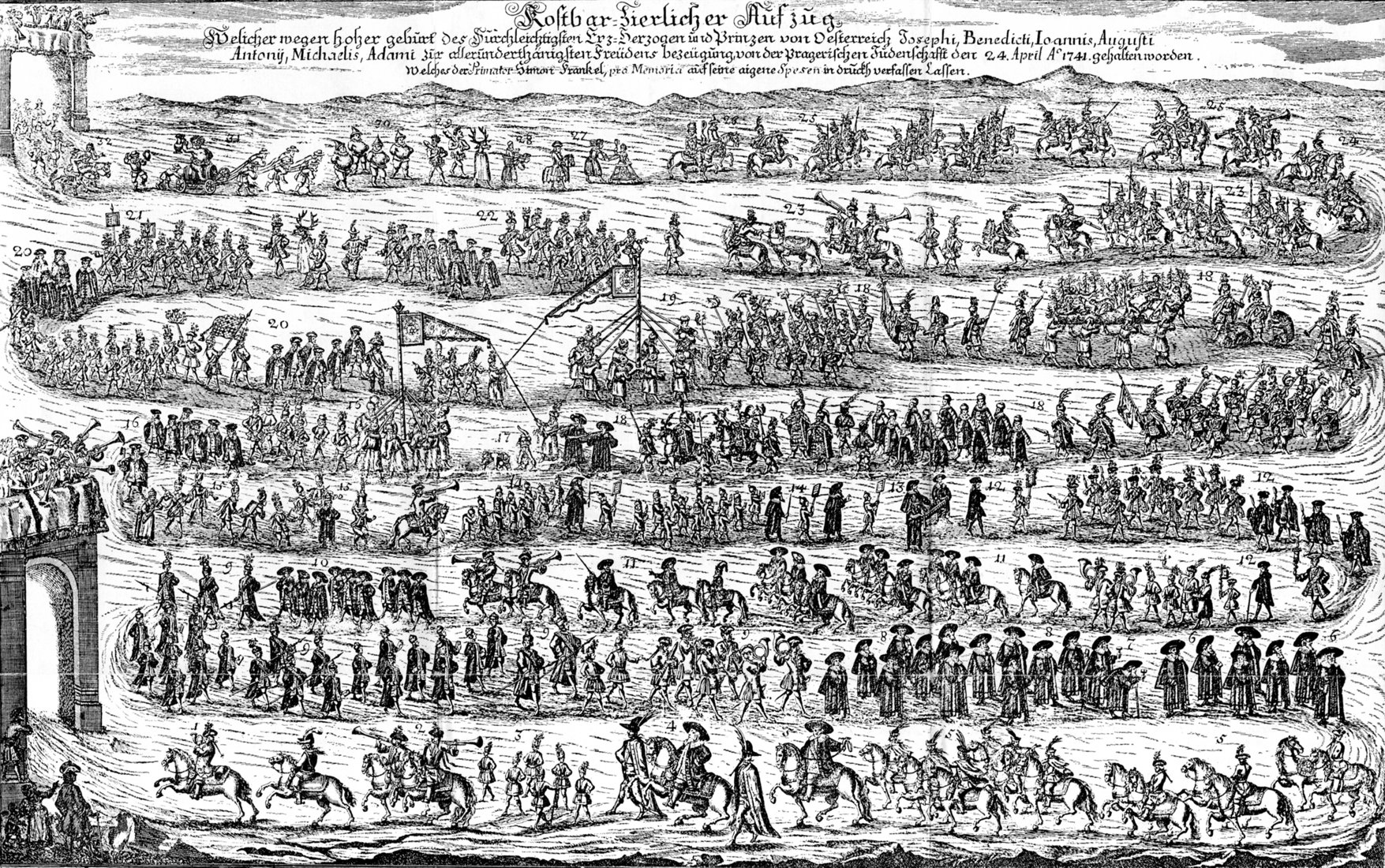 Israel Block 1960 TAVIV source